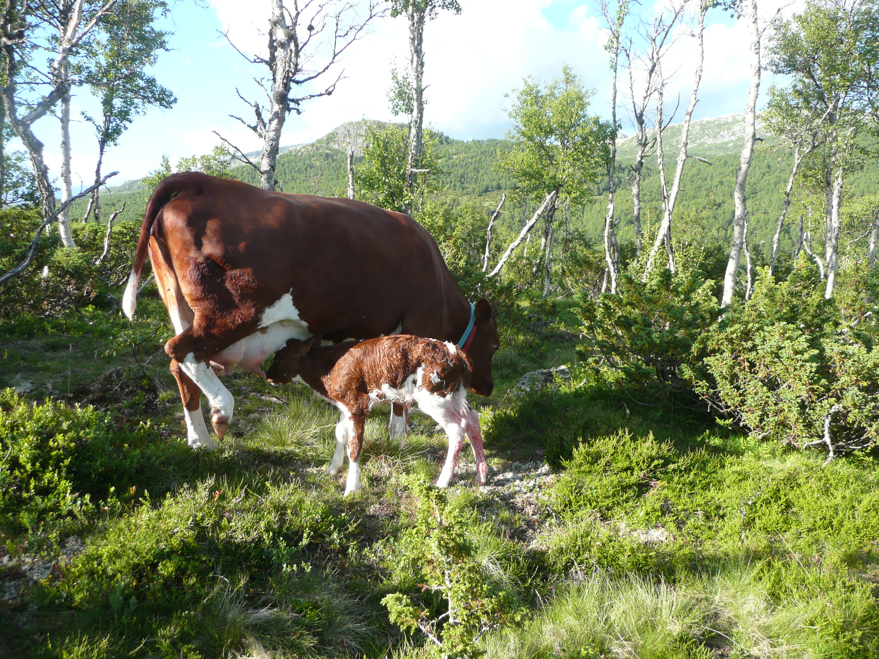 Newborn calf, 30 minutes old. At Kråkeroe-staulen